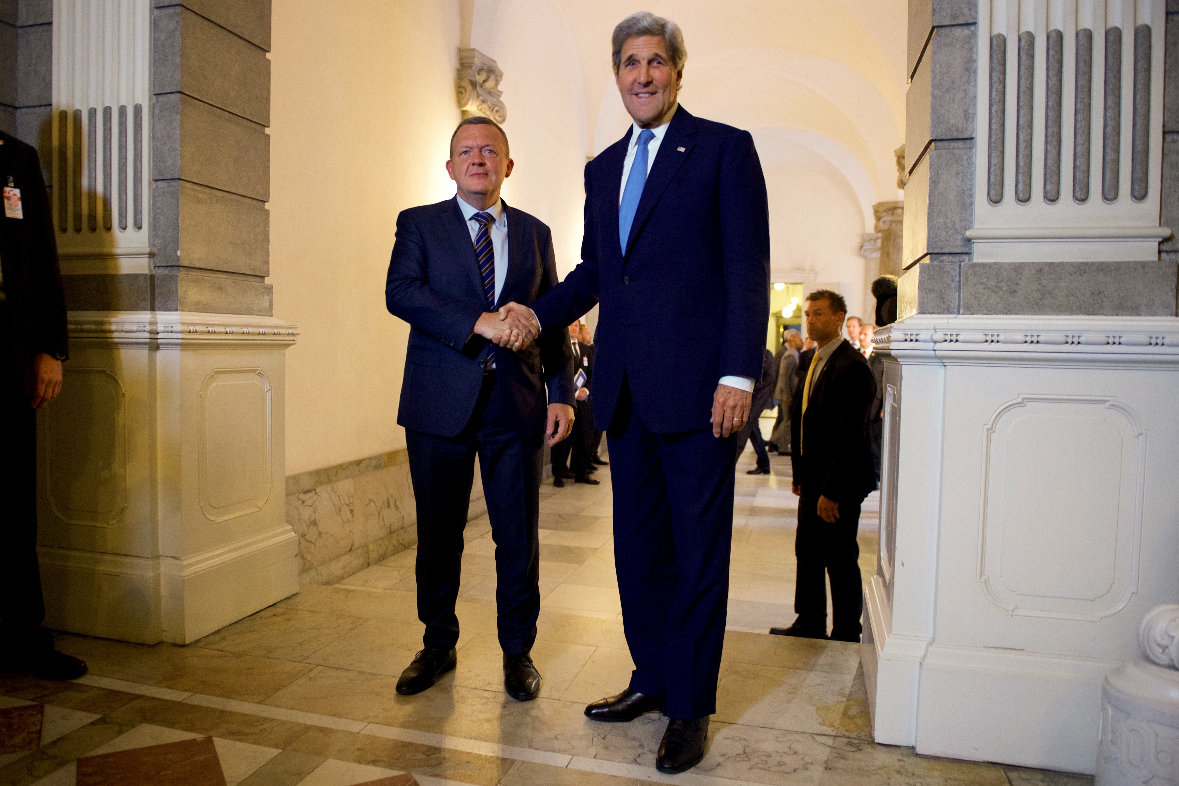 U.S. Secretary of State John Kerry and Danish Prime Minister Lars Rasmussen shake hands before their meeting at the Prime Minister's Office in Copenhagen, Denmark, on June 16, 2016. [State Department photo/ Public Domain] [State Department photo/ Public Domain]